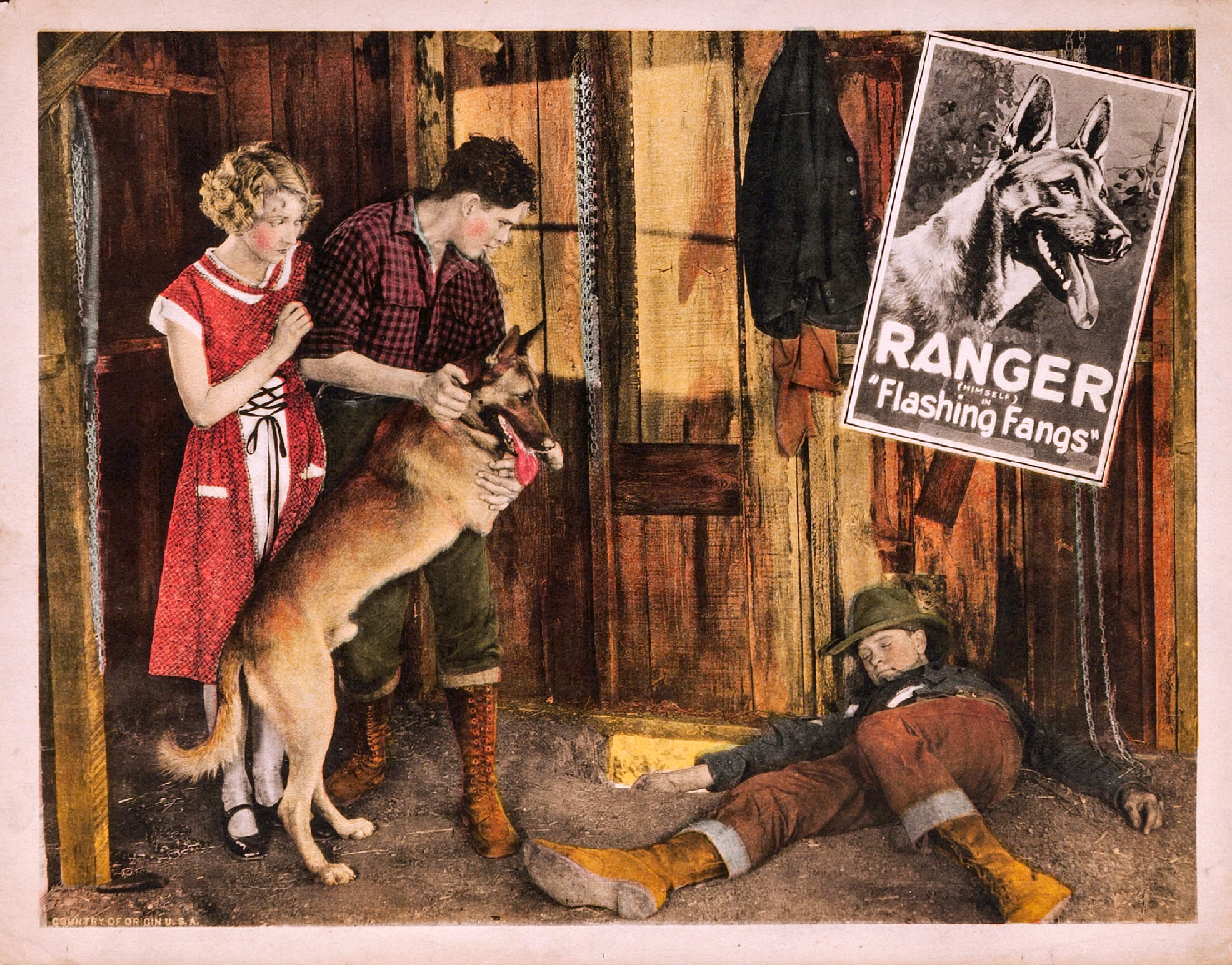 Lobby card from the American film Flashing Fangs (1926) with Robert Ramsey, Lotus Thompson, and Ranger the Dog.